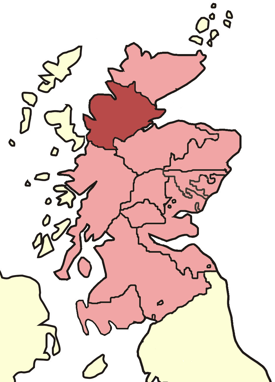 Diocese of Scotland in the reign of king David I. Based on William Forbes Skene's map of 1887.